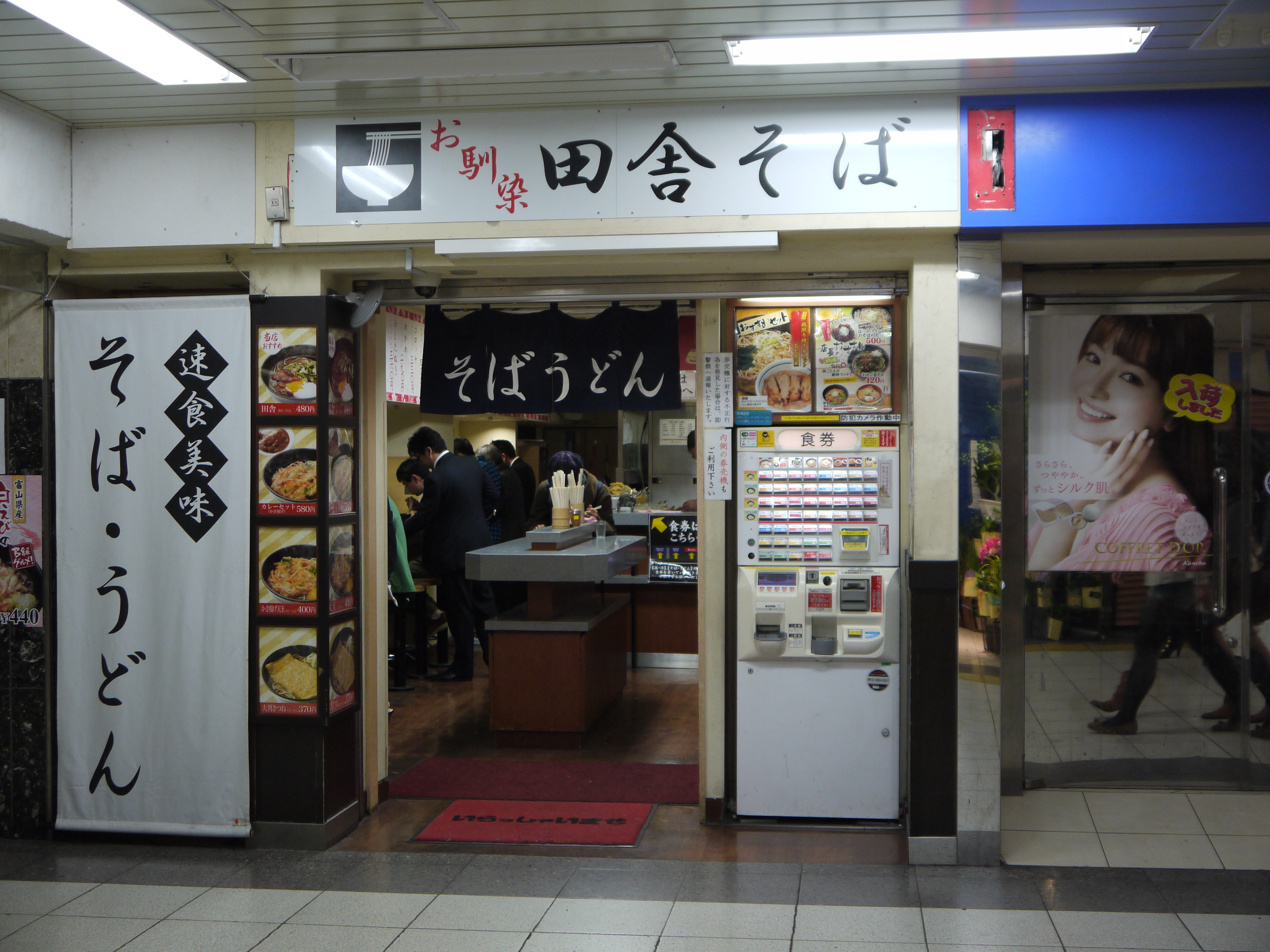 Japanese Quick serving soba noodle stand Ikebukuro